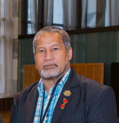 Talaititama Talaiti, Niue MP, at the Pacific Parliamentary Forum in Wellington, NZ, in 2016